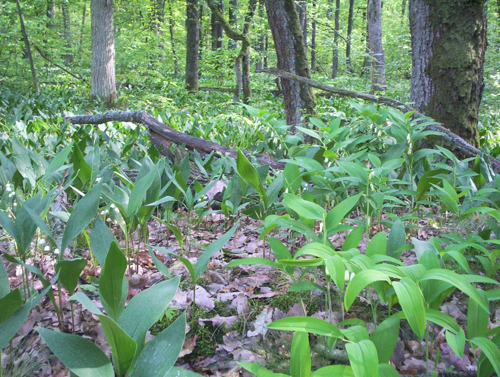 Forest in nature reserve Dąbrowa Radziejowska, with Convallaria majalis and Polygonatum (odoratum or multiflorum) growing, Poland.